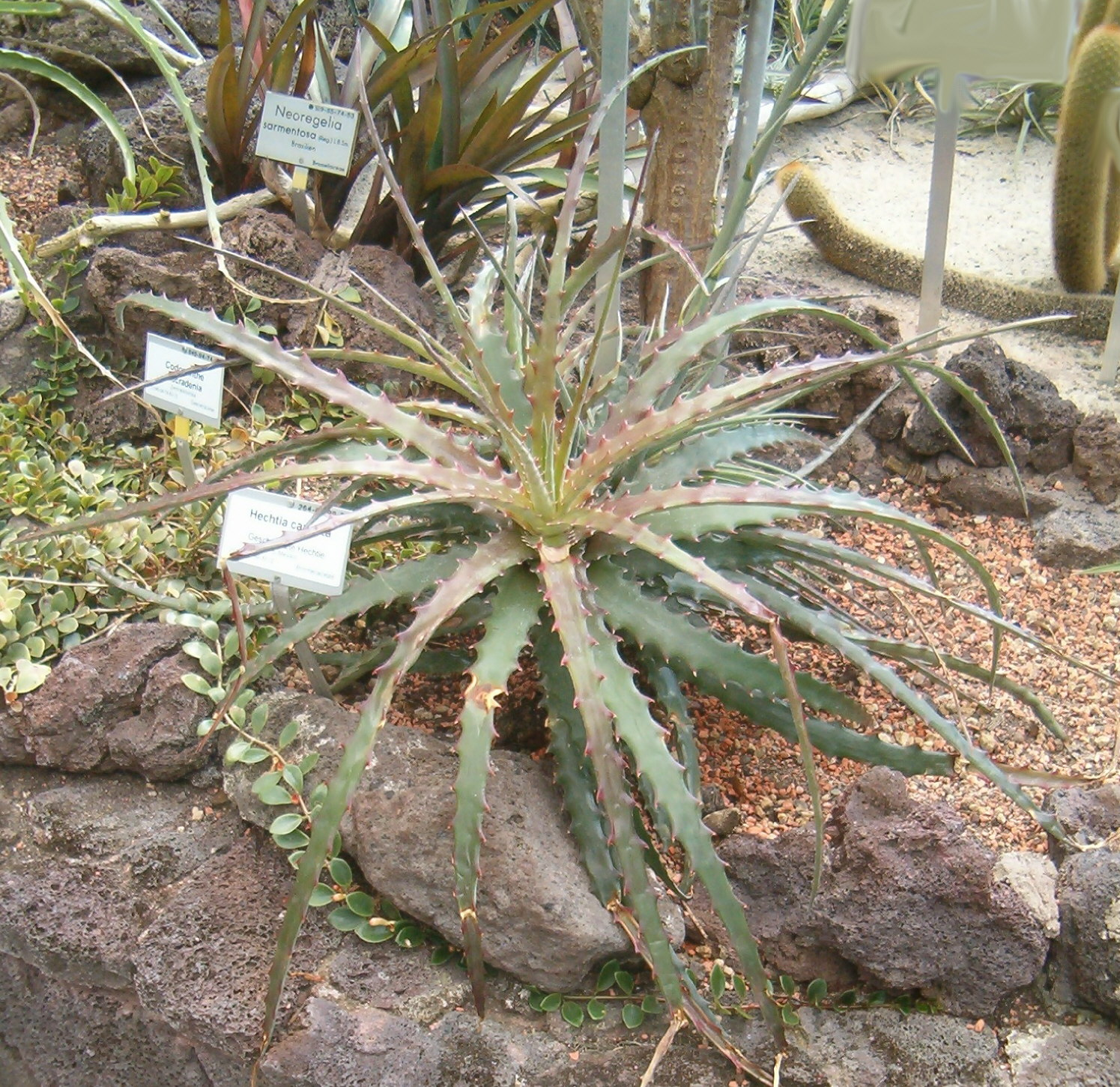 At Botanical Gardens Berlin-Dahlem Species Hechtia caudata